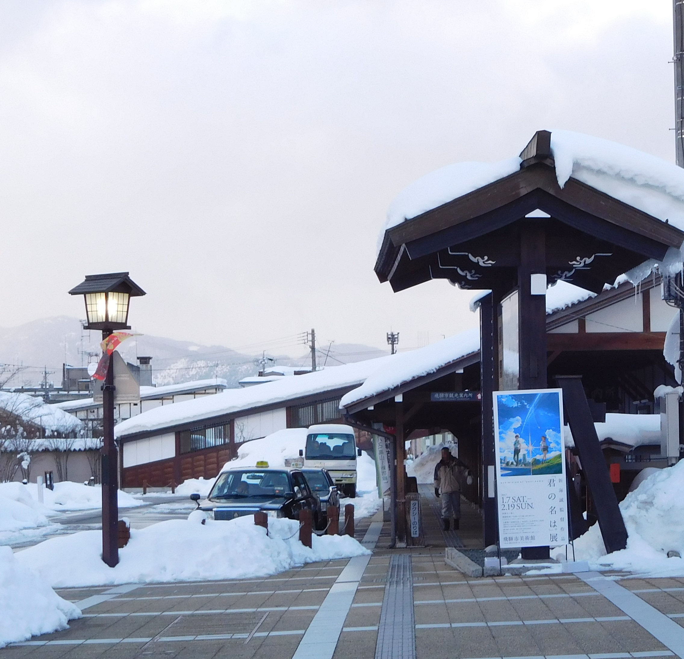 This is the roundabout of Hida-Furukawa station in Hida, Gifu, Japan. This scene appears in the film "Your Name."